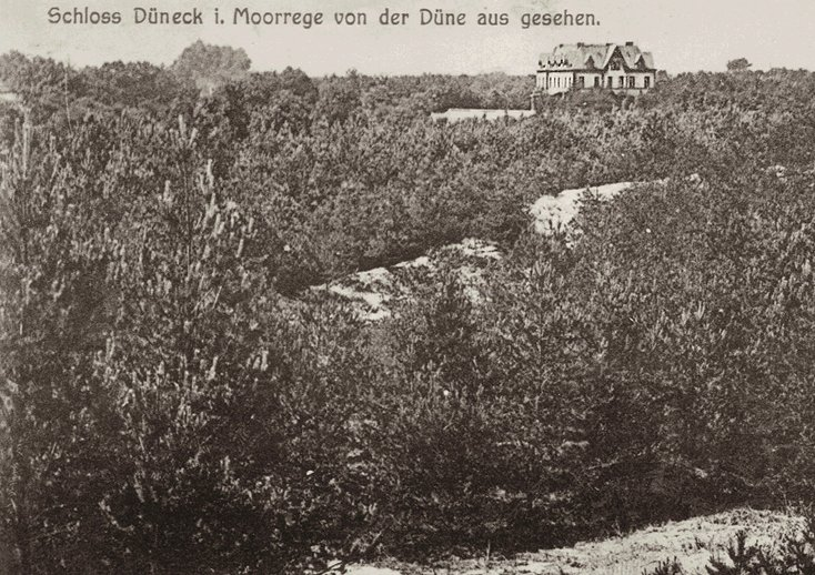 Moorrege (Schleswig-Holstein, Germany), “Düneck-Castle“ 1880